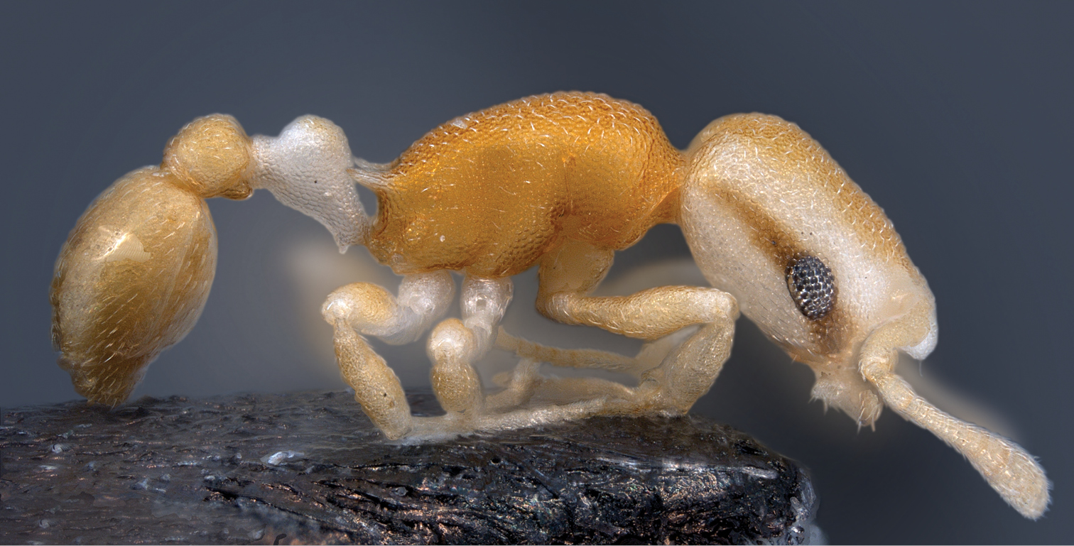 Lateral aspect of Cardiocondyla pirata holotype worker.